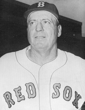 Professional baseball manager Billy Herman